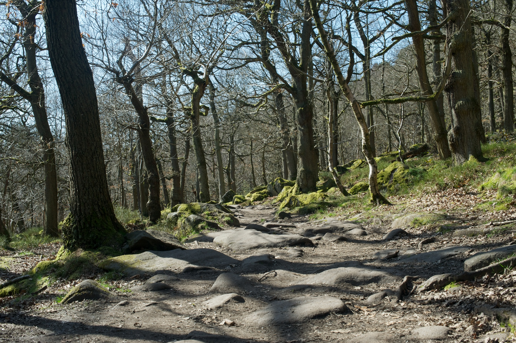 photograph of padley gorge under trees, beginning of summer